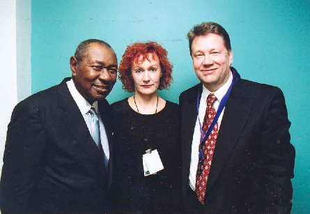 Left to right: American musician (piano and vocals) Freddy Cole, music producer Merle Kollom, Estonian musician Lembit Saarsalu (saxophone).